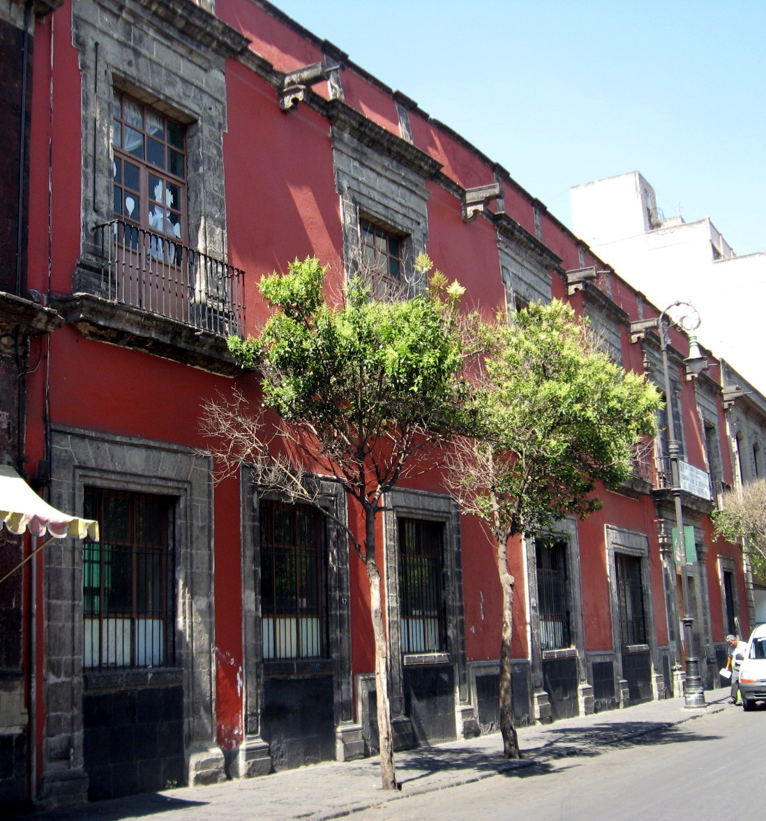 97 Republica de Cuba Street on the Plaza of Santo Domingo in Mexico City. This site was the home of the husband of La Malinche